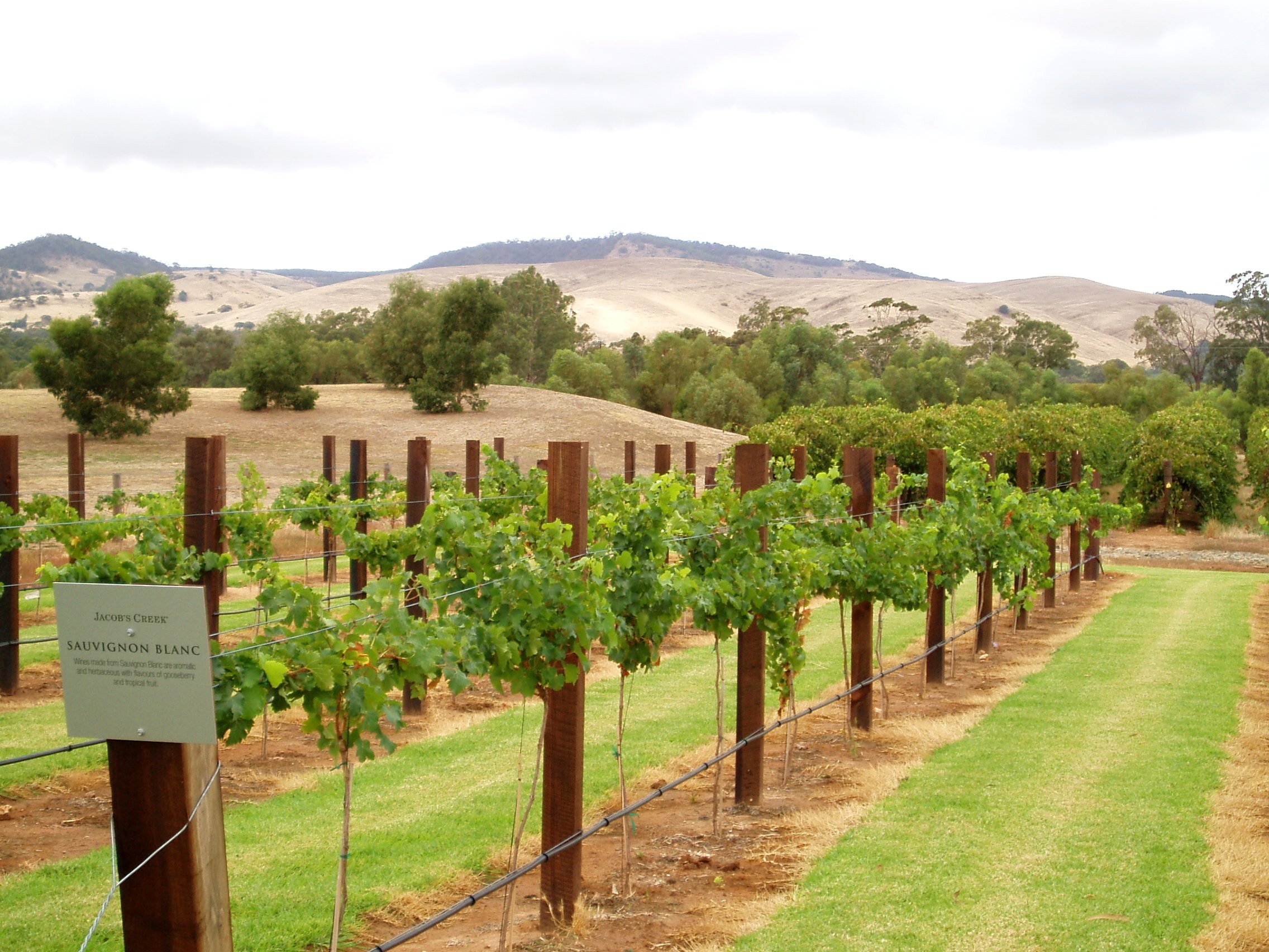 Young Sauvignon blanc vines in the South Australia wine region of Barossa Valley.